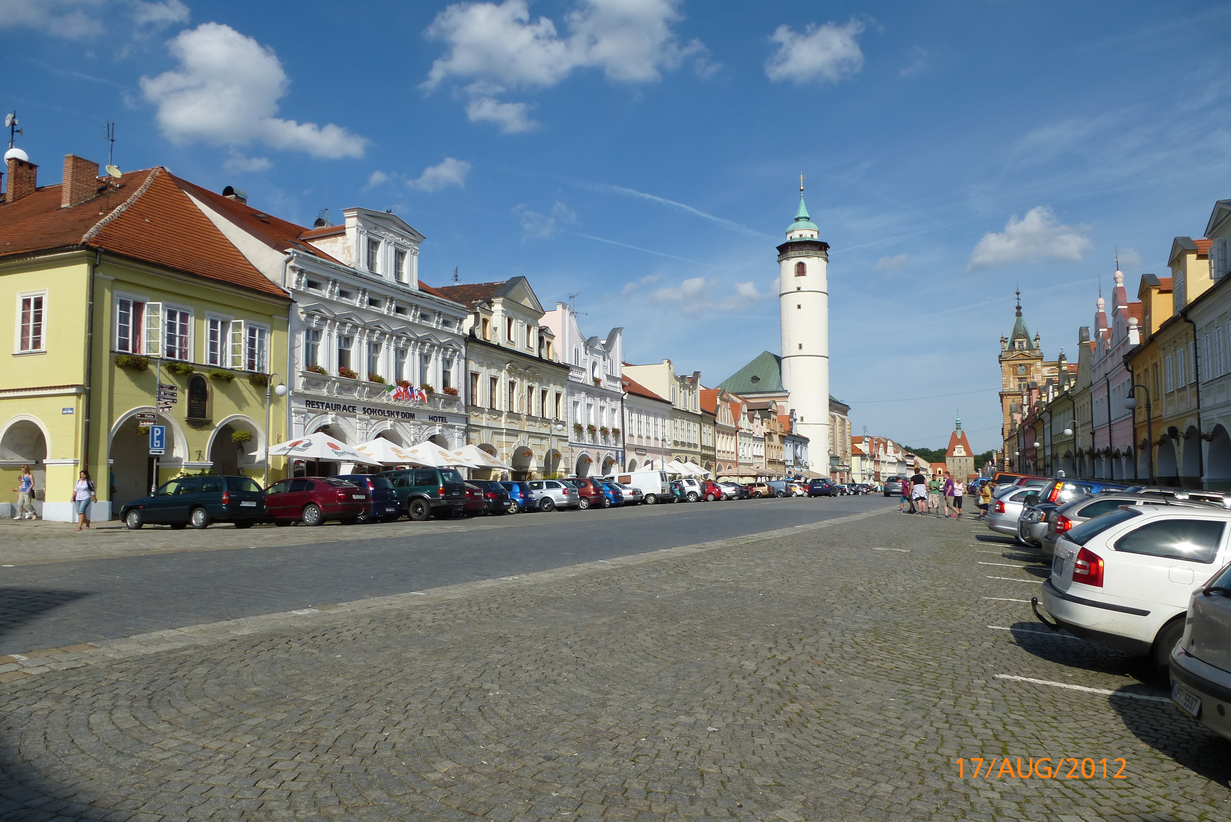 City of Domazlice